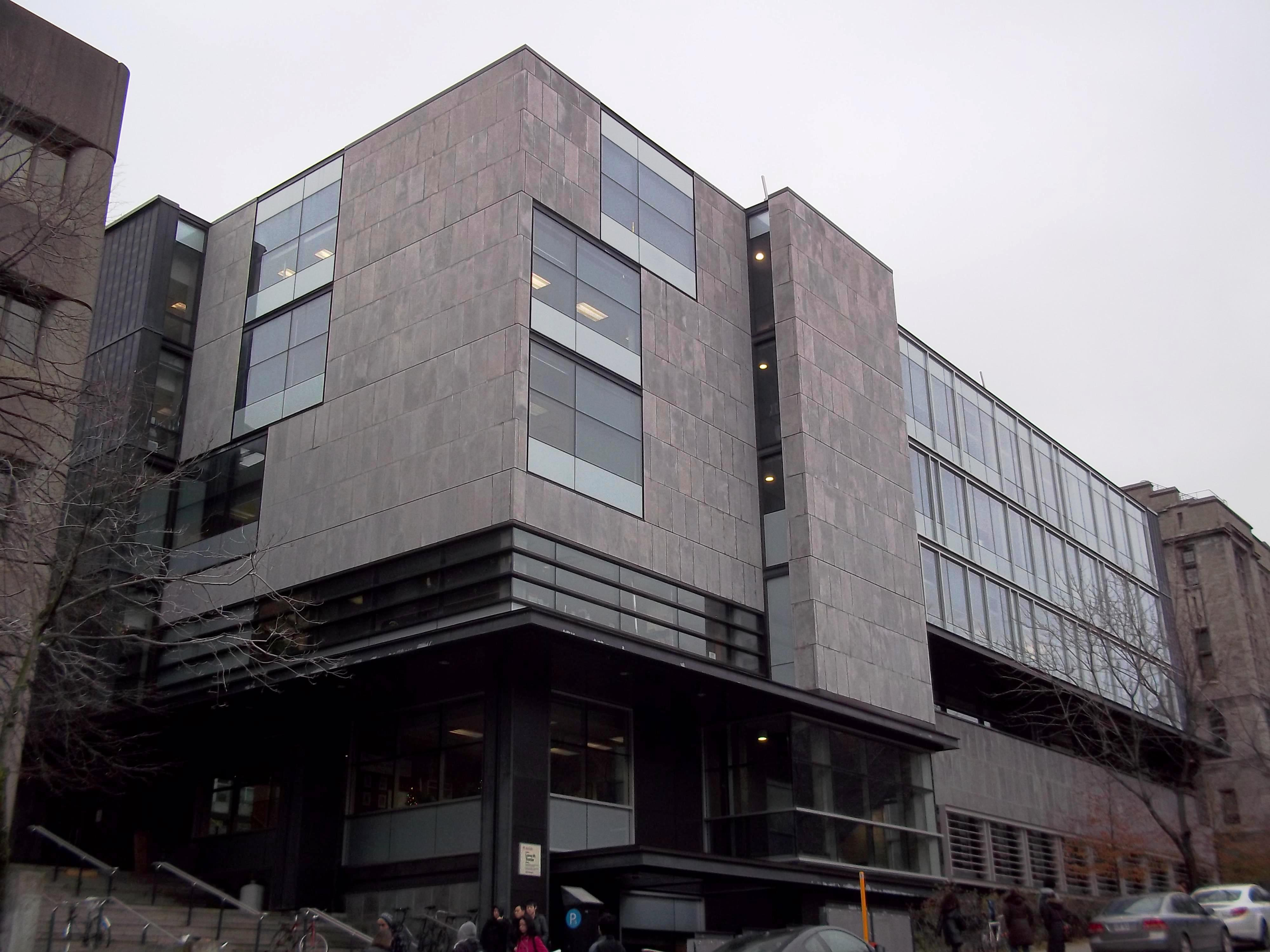 Lorne M. Trottier Building McGill, 3630 University Street, Montreal, Quebec, Canada